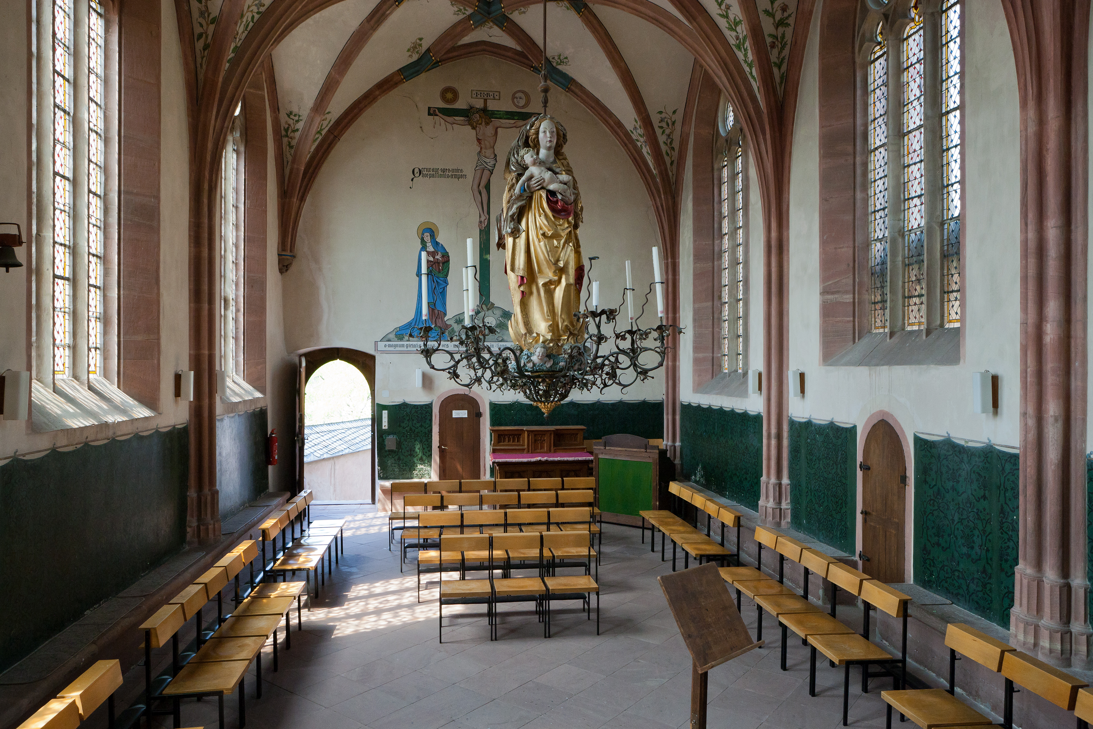 Kiedrich: Michaelskapelle (St. Michael's Chapel), interior of the chapel as seen from the east